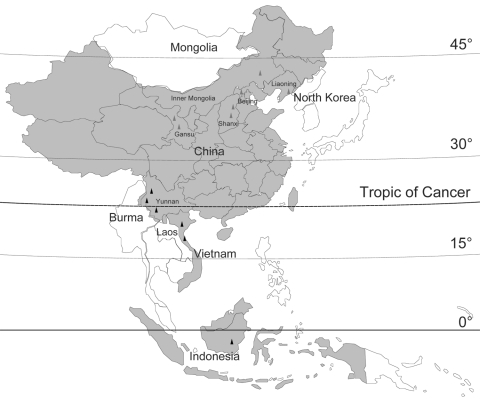 Location of new Banna viruses (BAVs) isolated in China (red triangles) and previously reported BAV isolation sites (black triangles). Countries reporting isolation of BAV are shaded. The names of the countries that are contiguous with BAV isolation sites are labeled. BAV distribution sites in Indonesia, Vietnam, and part of China are located in tropical zones, which lie predominantly between the Tropic of Cancer and the equator. Most BAV distribution sites in China in the area from the Tropic of Cancer to latitude 45°N belong to the northern temperate zone.